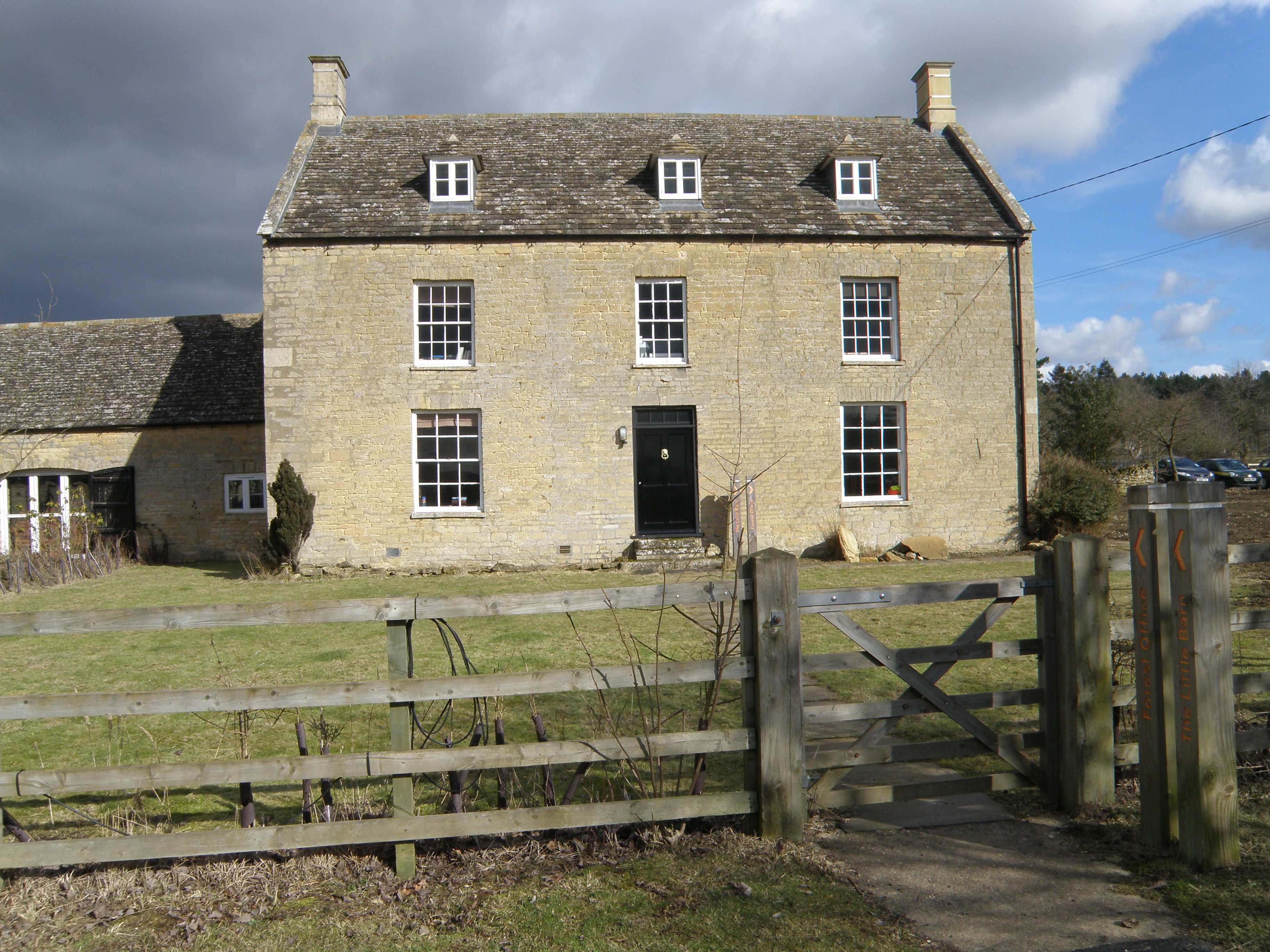 Top Lodge , Fineshades wood The headquarters of the regional Forestry Commission. An activity centre for visiting schools and groups.